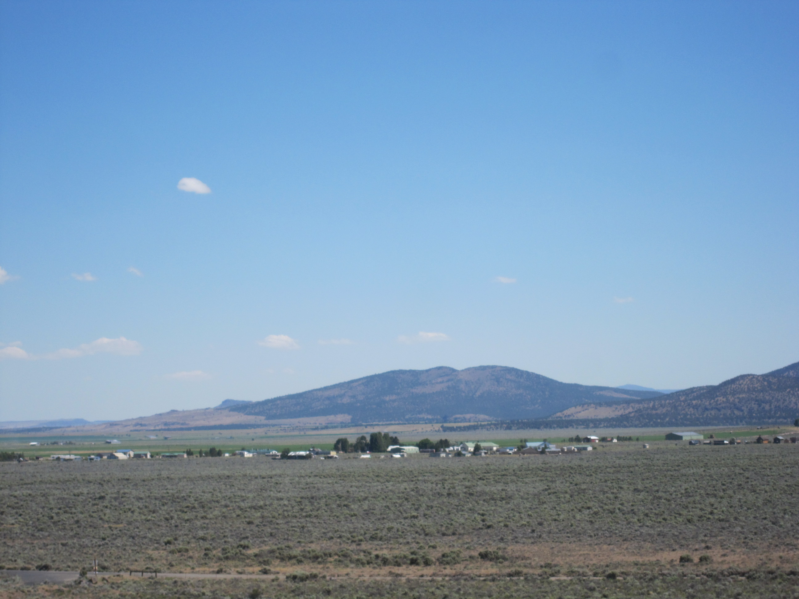 Fort Rock is an unincorporated community in Lake County, Oregon, United States, southeast of Fort Rock State Natural Area. The landmark of Fort Rock is a volcanic landmark called a tuff ring, located on an ice age lake bed in north Lake County, Oregon, United States.